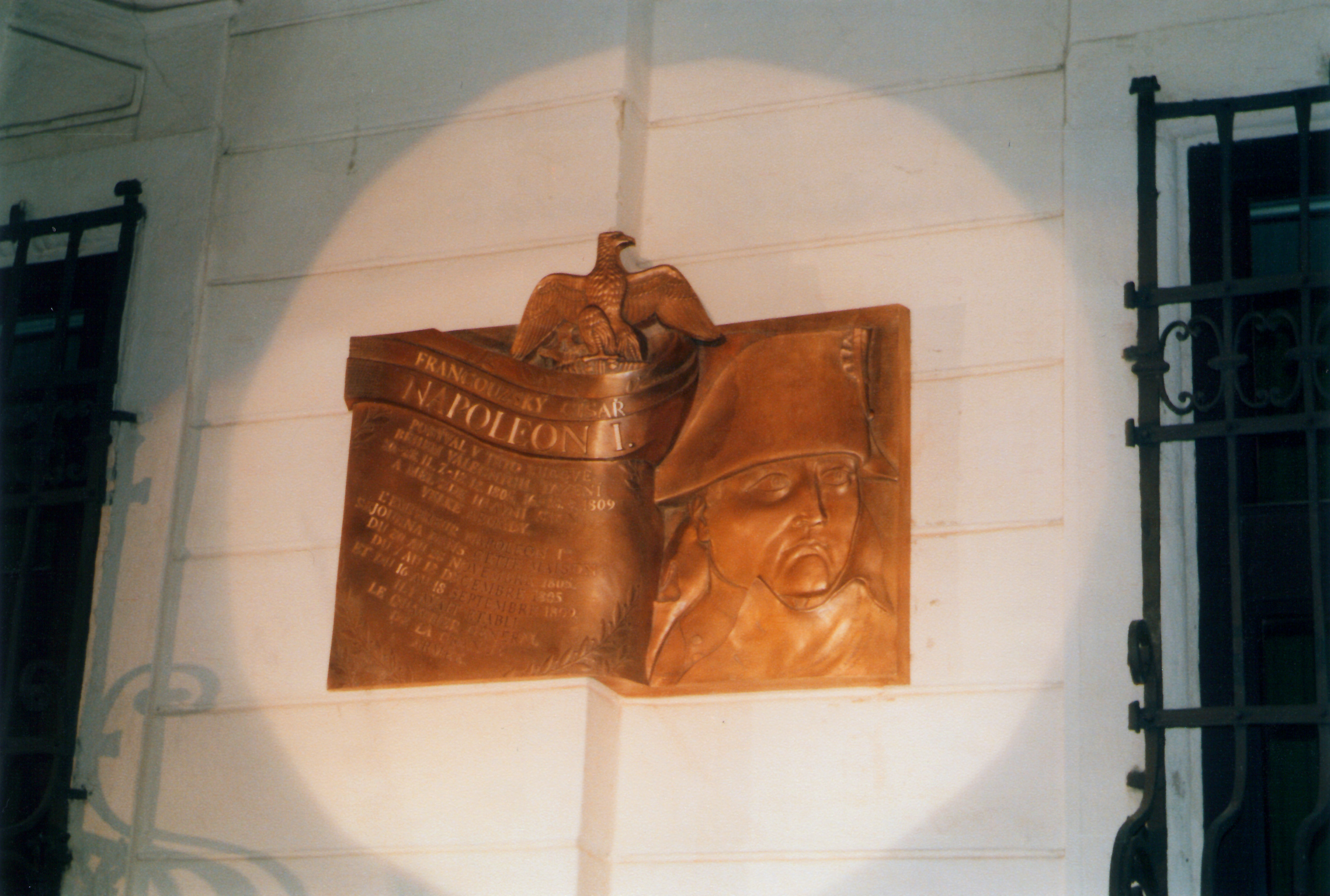 Commemorative plaque at Místodržitelský palace at Moravské square in Brno. Czech Republic.